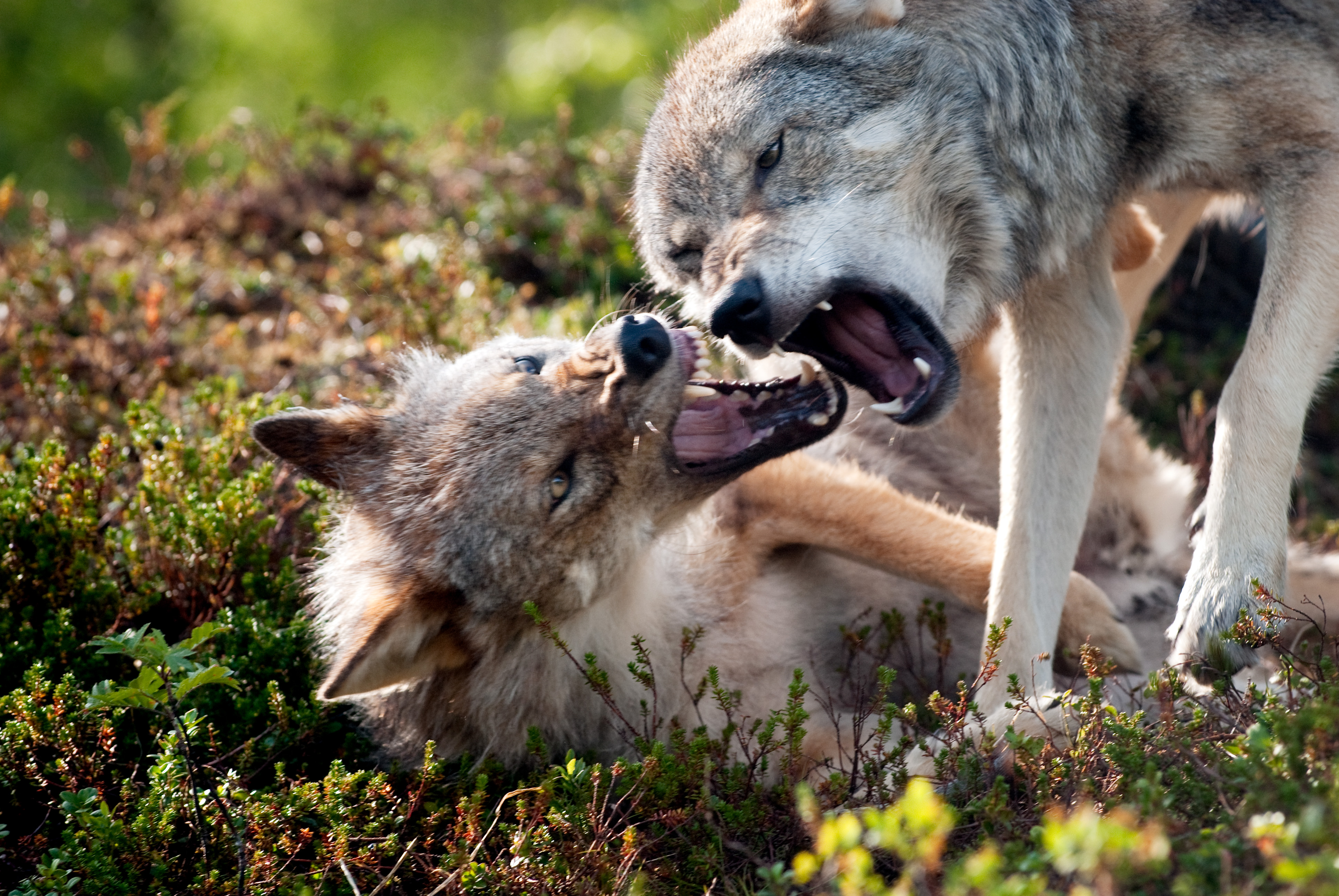 Varg fotograferad på Polar Zoo Norge Keywords: Animals, Nature